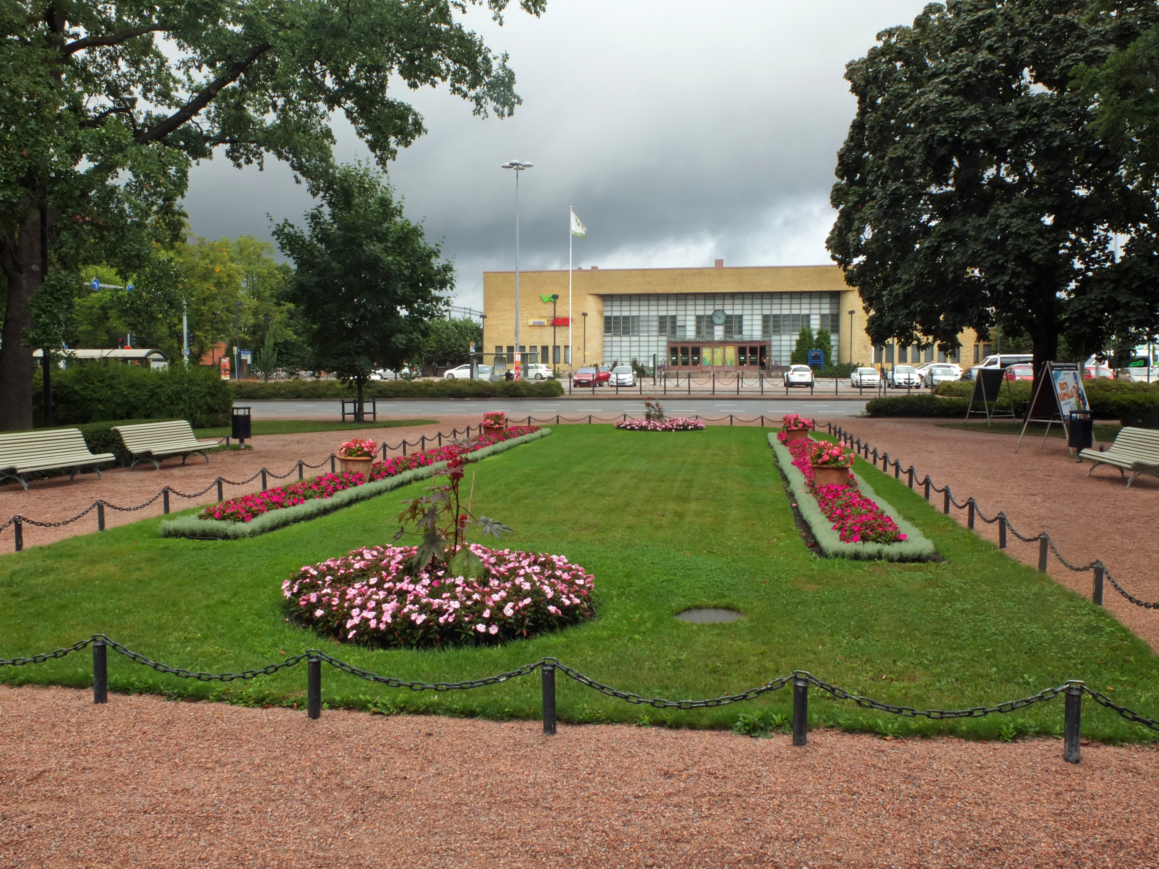 Asemanpuisto or Rautatientori, a park opposite the Turku Railway Station (seen in the background).